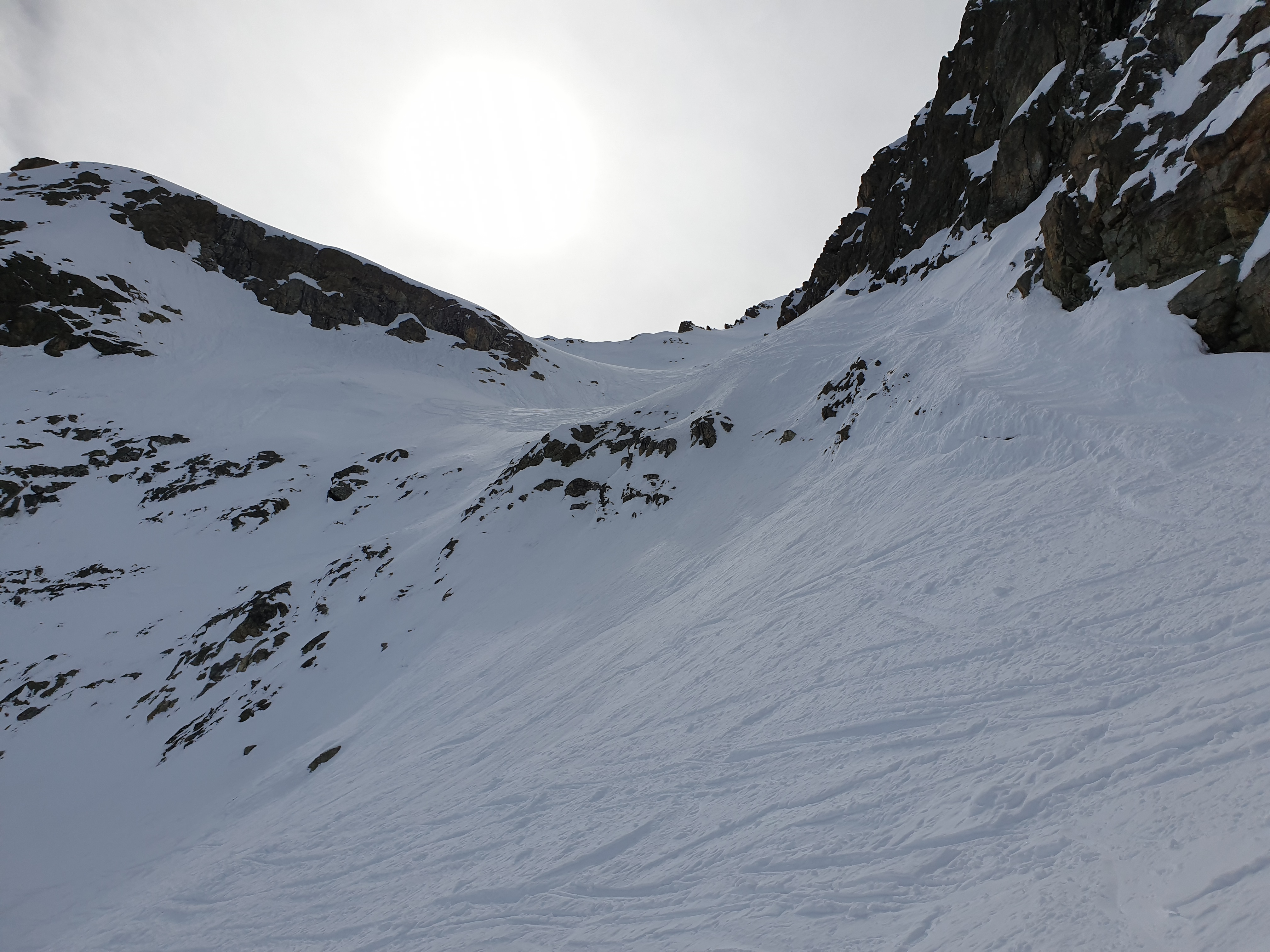 North couloir of Piz da las Coluonnas (Surses/Silvaplana, Grison, Switzerland)